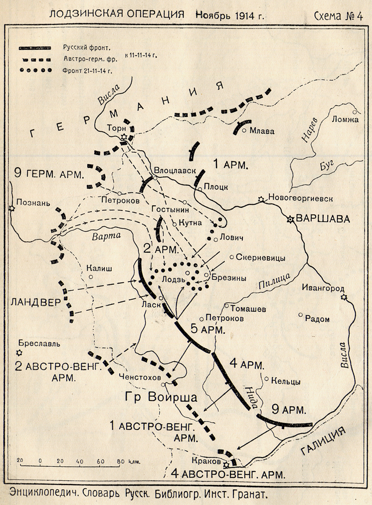 Battle of Łódź. November 1914.